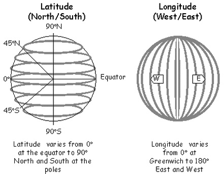 This is a basic photo showing that latitude lines are horizontal and longitude lines are vertical.